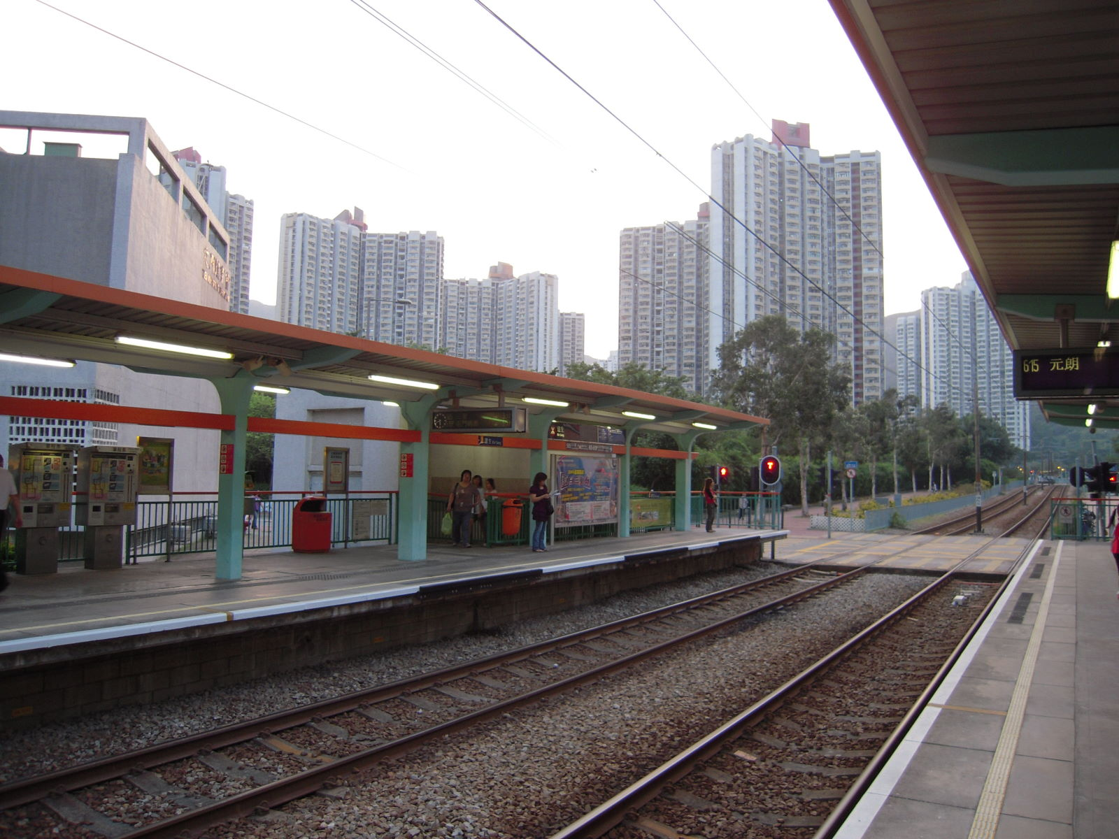 LRT Kin Sang Stop, MTR HK